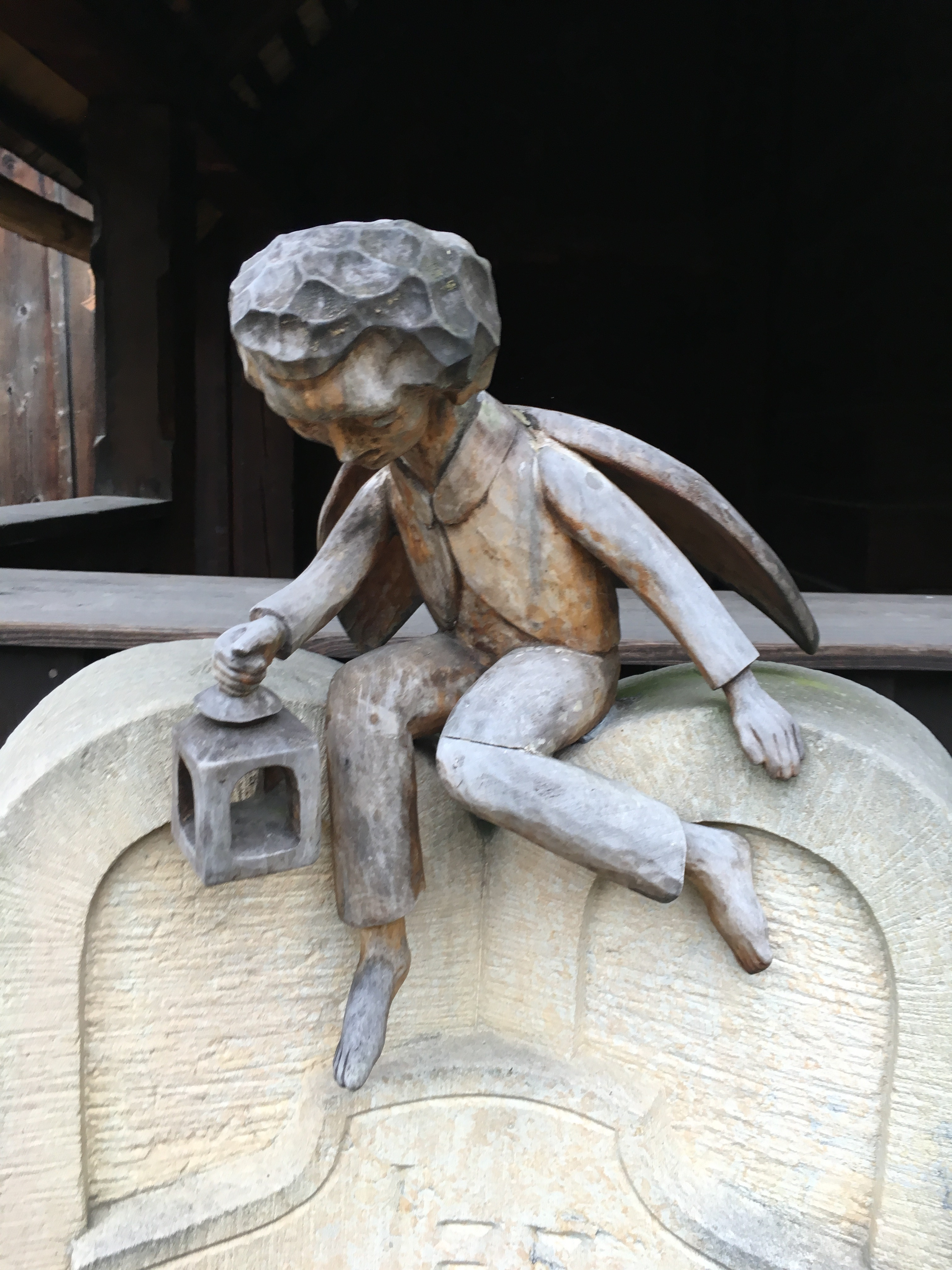 This is a picture of the carving on his head stone.